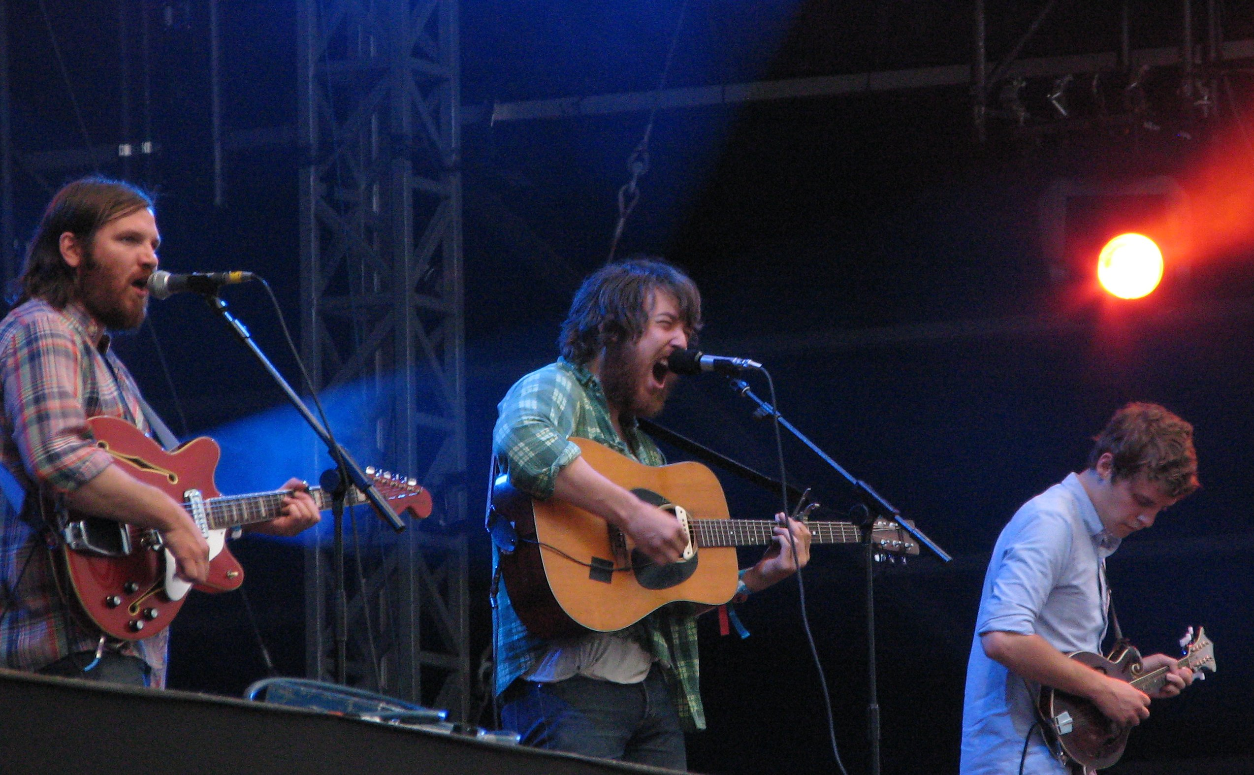 Hard Rock Calling 155 - The Fleet Foxes With scarves of red tied round their throats, to keep their heads from falling in the snow...